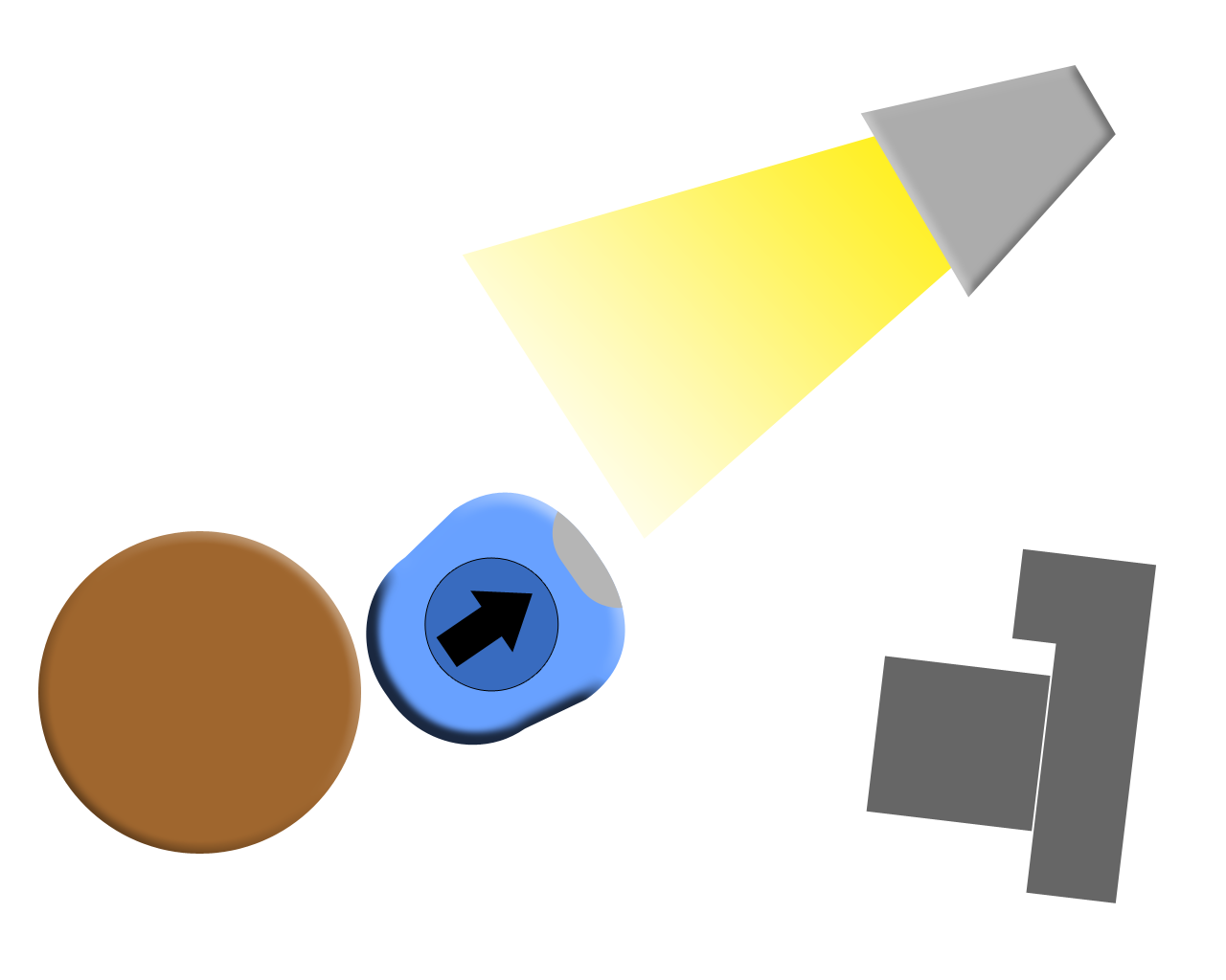 reflected meter, photometry